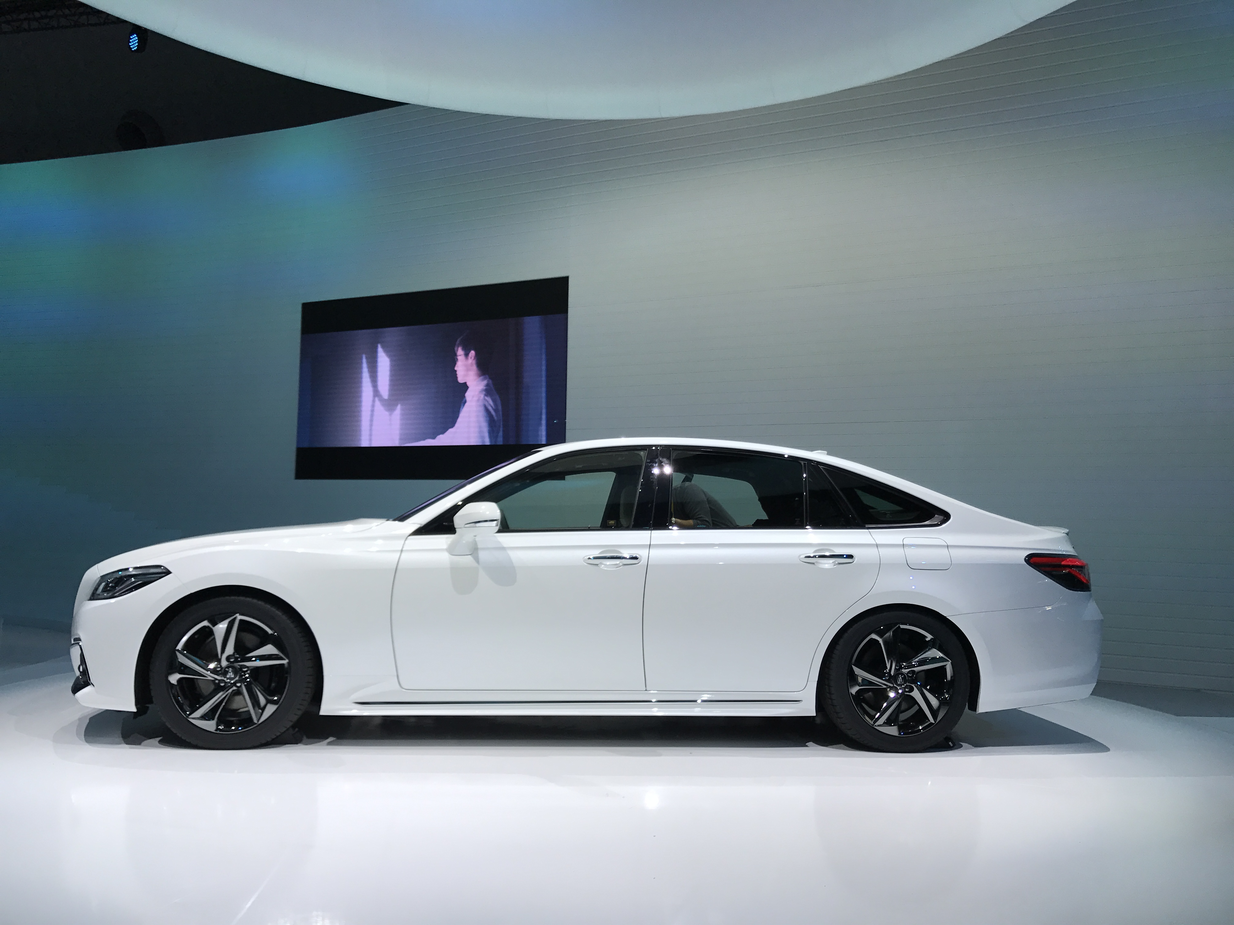 Left side of Toyota TJ Cruiser concept at the 2017 Tokyo Motor Show